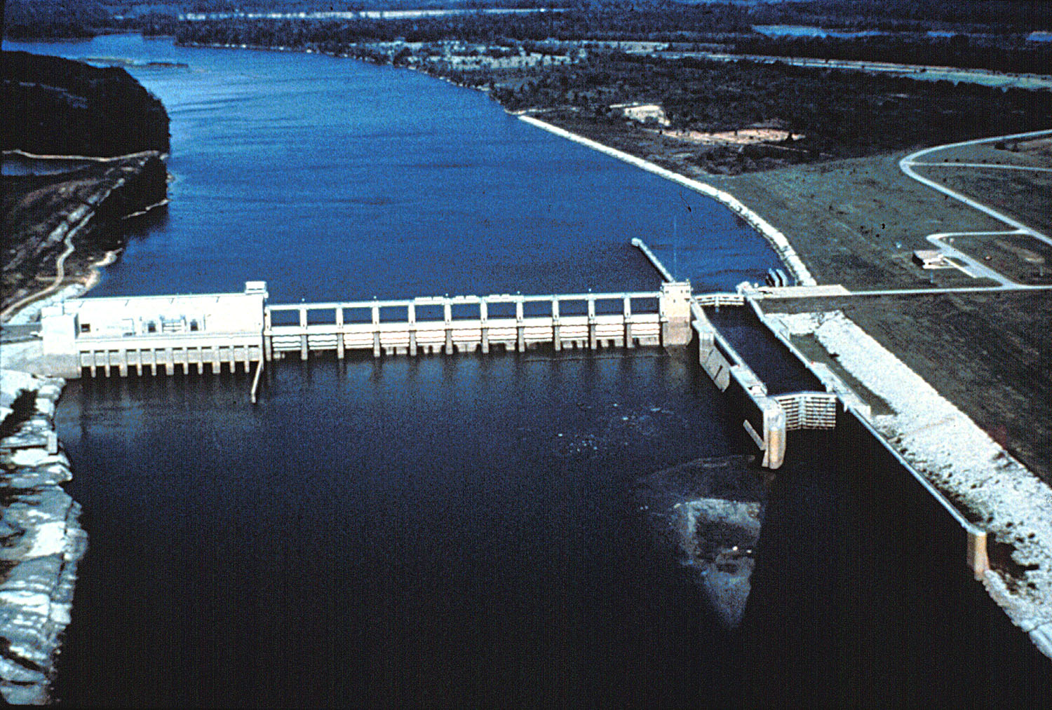 Aerial view of the Robert F. Henry Lock and Dam, formerly known as the Jones Bluff Lock and Dam, on the Alabama River. The dam spans the border between Autauga County and Lowndes County, Alabama, USA. The dam impounds R. E. “Bob” Woodruff Lake on the Alabama River. The lock and dam are located at river mile 245.4. The U.S. Army Corps of Engineers maintains the lock and dam for navigation on the Alabama River. Coordinates: 32°19′25.04″N 86°46′59.04″W / 32.3236222°N 86.7830667°W